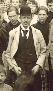 Henry Dunker started a successful rubber company in Helsingborgs Sweden employing Julius Gerkan as his technical director